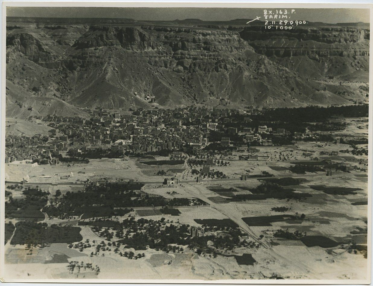 Bird's eye view of Tarim in 1929. At the time, Tarim was one of the chief cities of the Qu'aiti State in the Hadramaut, then part of the Aden Protectorate. Photograph taken by the R.A.F. in 1929.